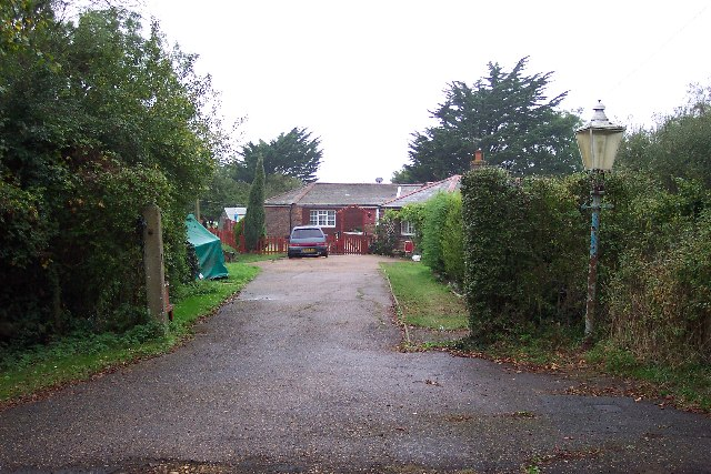 The old railway station, Ningwood. For railway aficionados the origin of the site is given away by the substantial concrete gatepost on the left and the lamp post on the right. The original station was quite small and substantial wings have been added since closure.